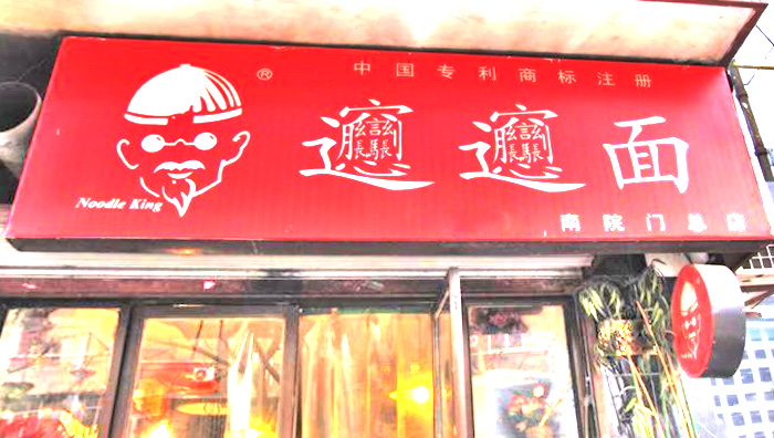 The Noodle King Shop of Biang Biang Mian.